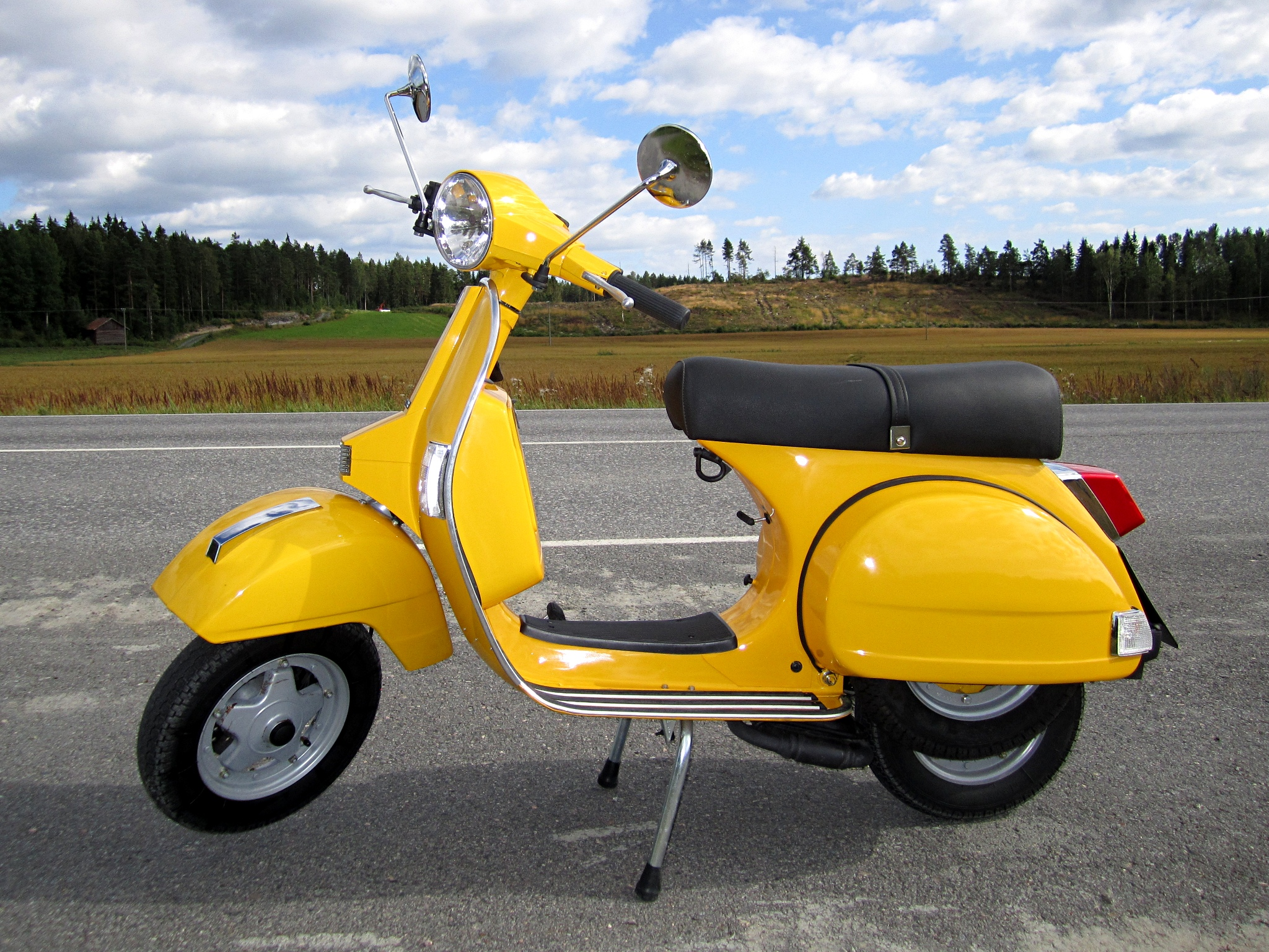 LML Star 125 four-stroke Vespa PX clone (2012). Made in India.